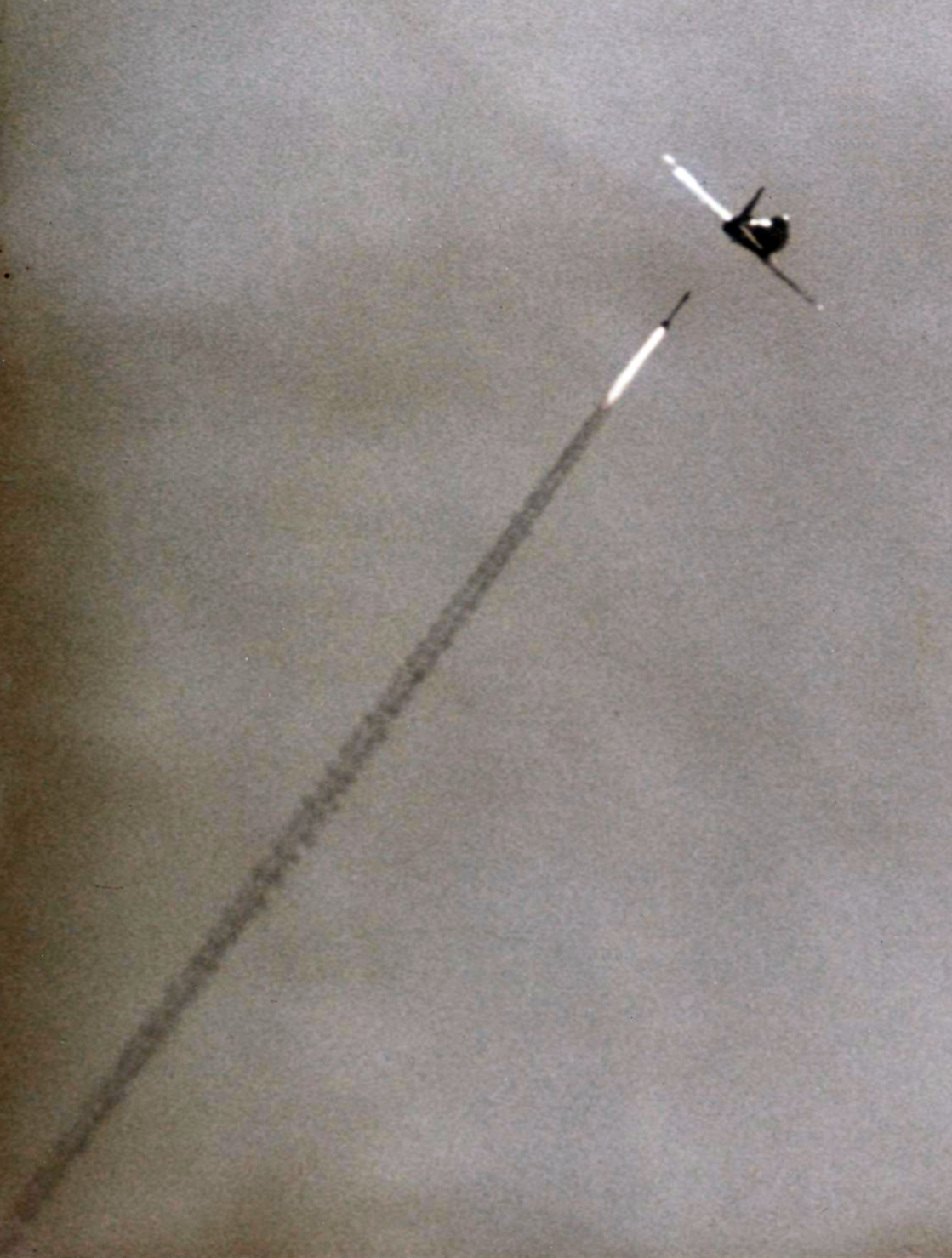 An AIM-9L Sidewinder air-to-air missile just before intercepting a North American QF-86F Sabre target drone at the U.S. Navy Naval Weapons Center (NWC) China Lake, California (USA), 29 September 1977.